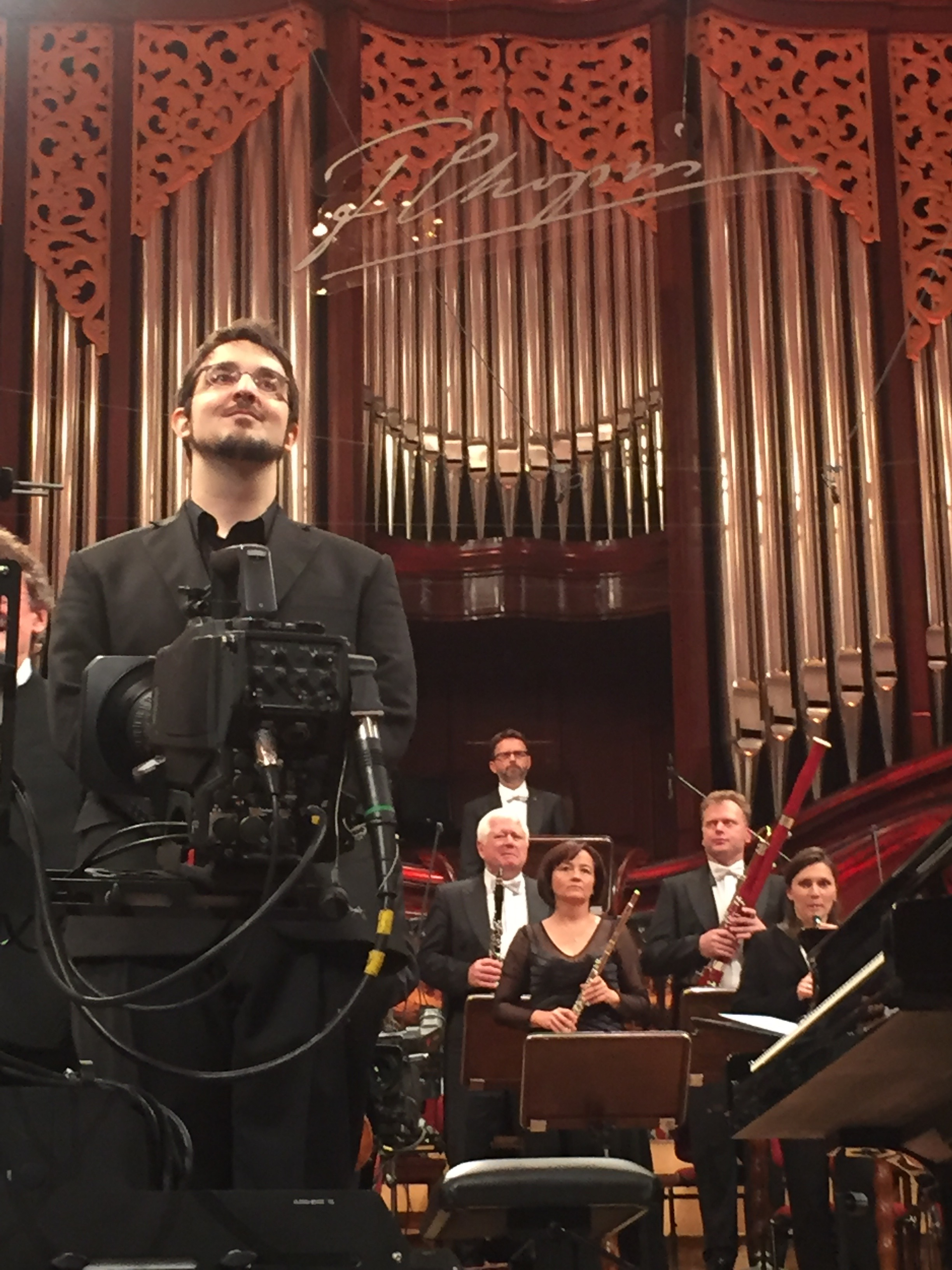 Charles Richard-Hamelin at the International Chopin Piano Competition 2015, Finals